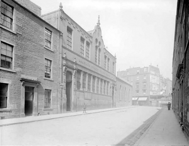 Balfour Street Public School, Dundee. Alexander Wilson, who took this photograph, was a supervisor in a Dundee jute mill for over 20 years. He bequeathed much of his collection and £50, to cover the costs involved, to the Free Library Committee of Dundee in 1923.